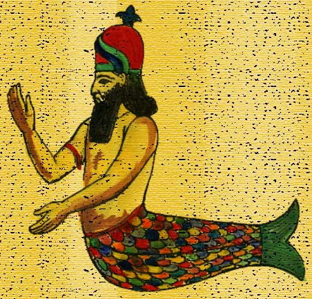 Semitic god Dagon, coloured line-drawing based on the "Oannes" relief at Khorsabad.